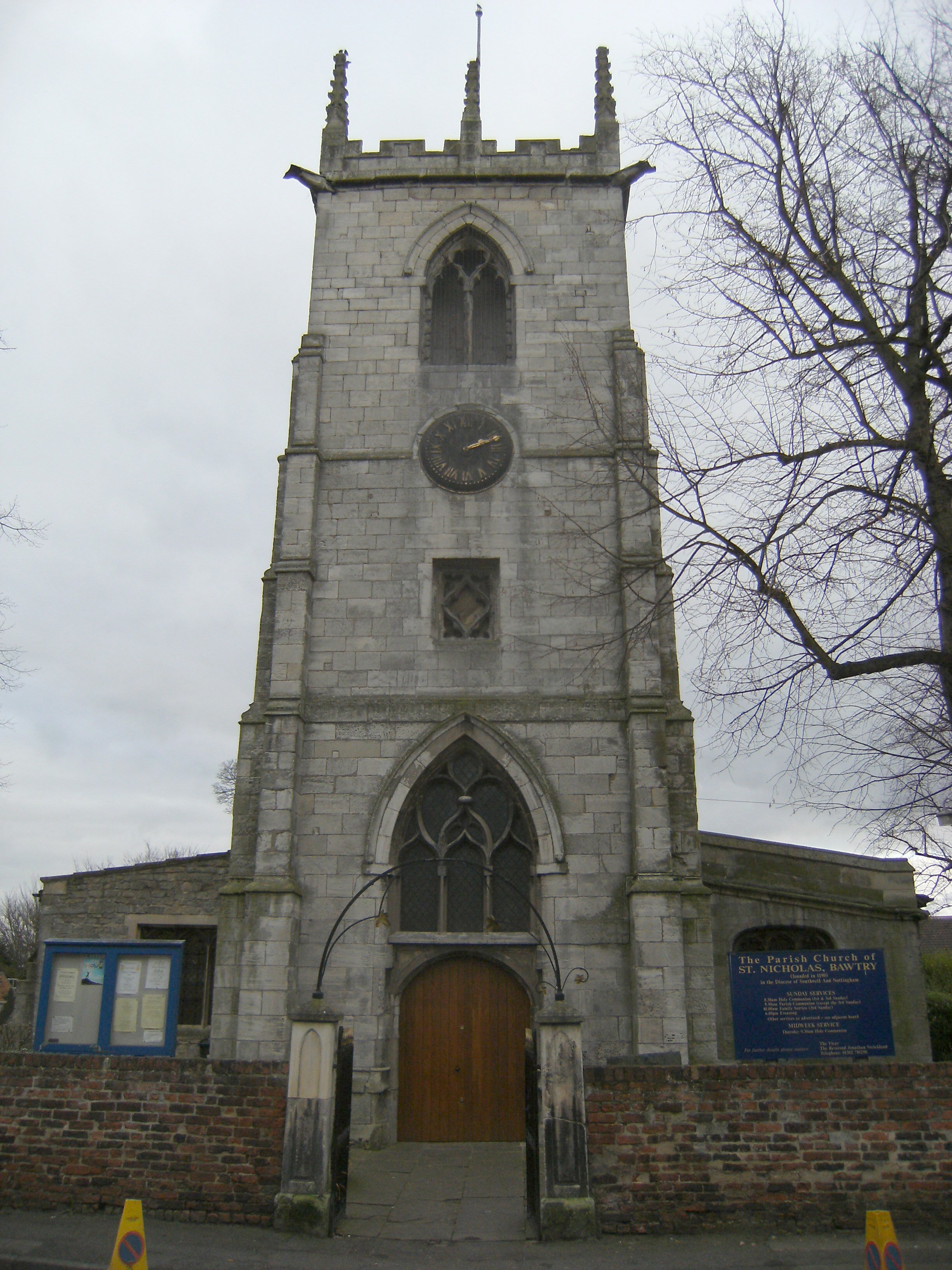 The Church of St Nicholas in Bawtry, South Yorkshire, from the west.